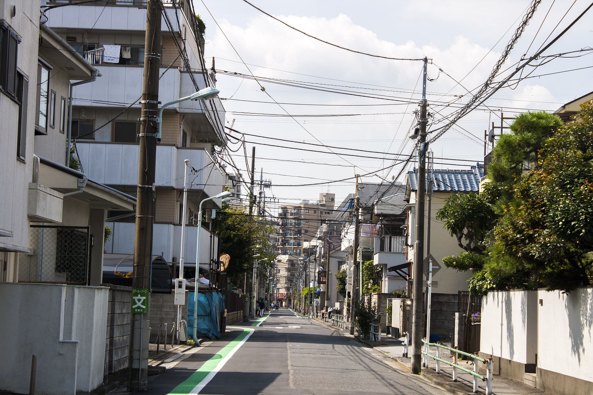 Street 3 Chome-10-8 in Shinkoiwa, September 2013. Facing west.